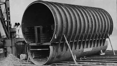 Crude section of XXI type submarine in Dortmunder Union